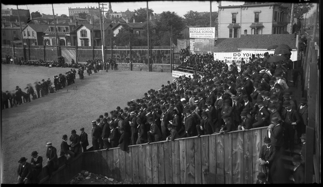 Predominantly male spectators watch game at Athletic Park in back of the West Hotel, Minneapolis, 1891.